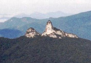 Batu Lawi, seen from the peak of Gunung Murud, Sarawak, Borneo on 4 September 1998